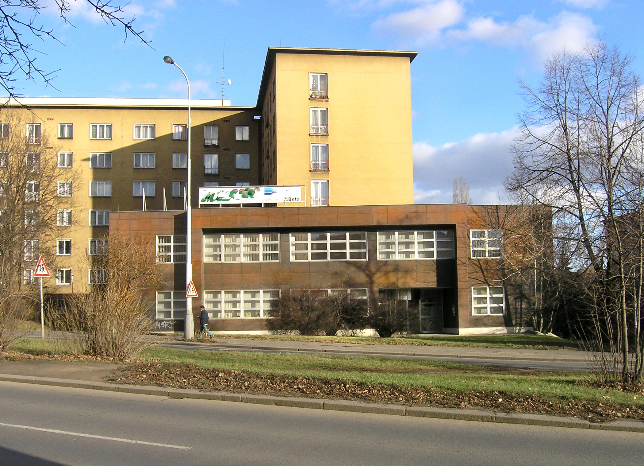 Former club Eden, Prague.